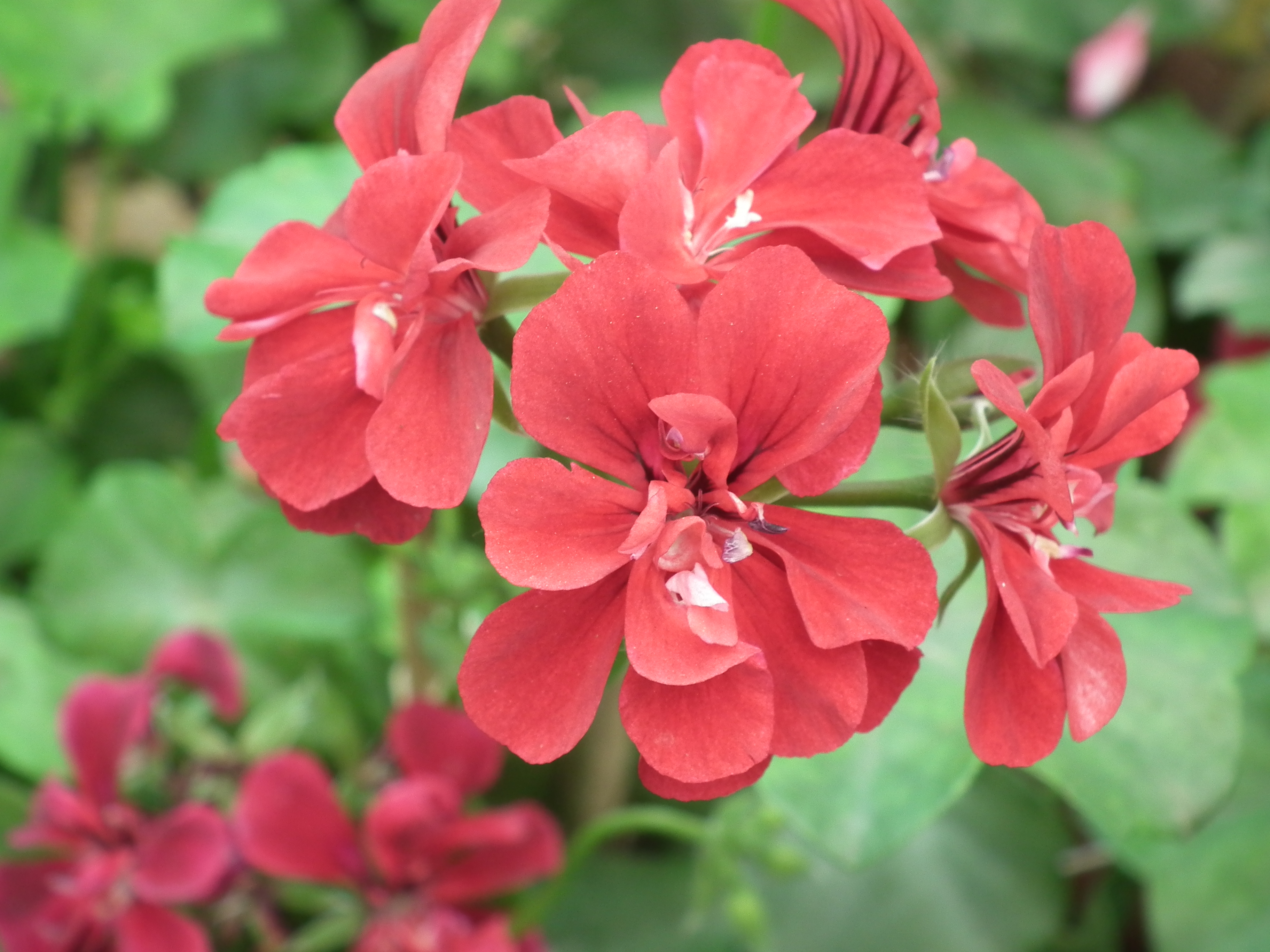 Geranium at Lalbagh Flower Show - August 2012